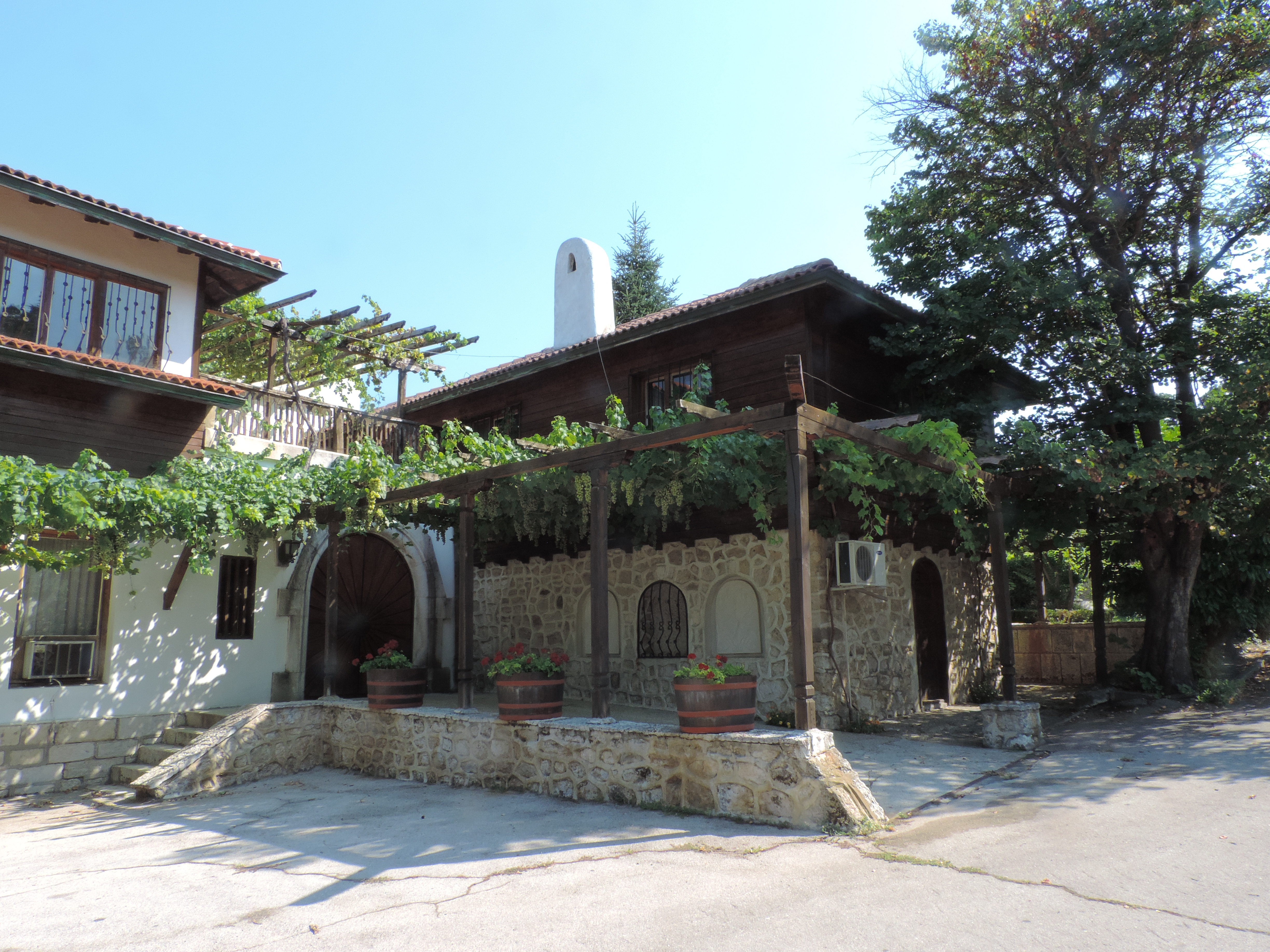 Euxinograd is a late 19th-century Bulgarian former royal summer palace and park on the Black Sea coast, 8 kilometres (5.0 mi) north of downtown Varna. The palace is currently a governmental and presidential retreat hosting cabinet meetings in the summer and offering access for tourists to several villas and hotels. Since 2007, it is also the venue of the Operosa opera festival. Euxinograd is situated at an altitude of 49 m. The park and palace were closed until the summer of 2016 due to extensive renovations.